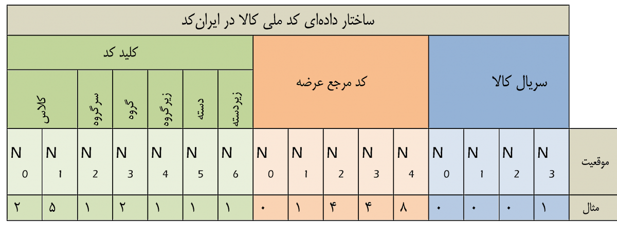 irancode data structure for goods